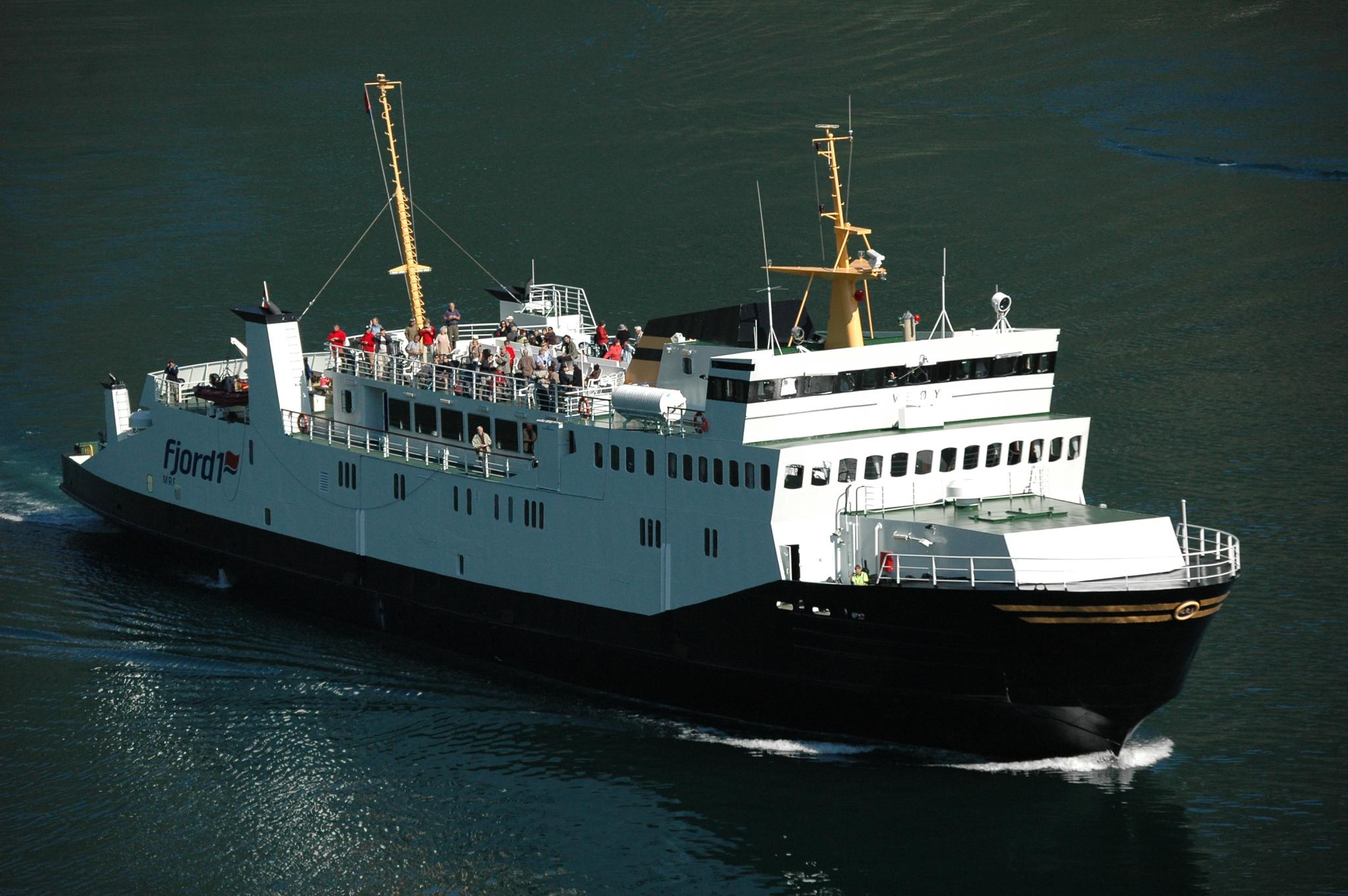 Car ferry MF Veøy on its way to Geiranger fjord, Norway. Original description: Fahrt nach Geiranger durch die Fjorde